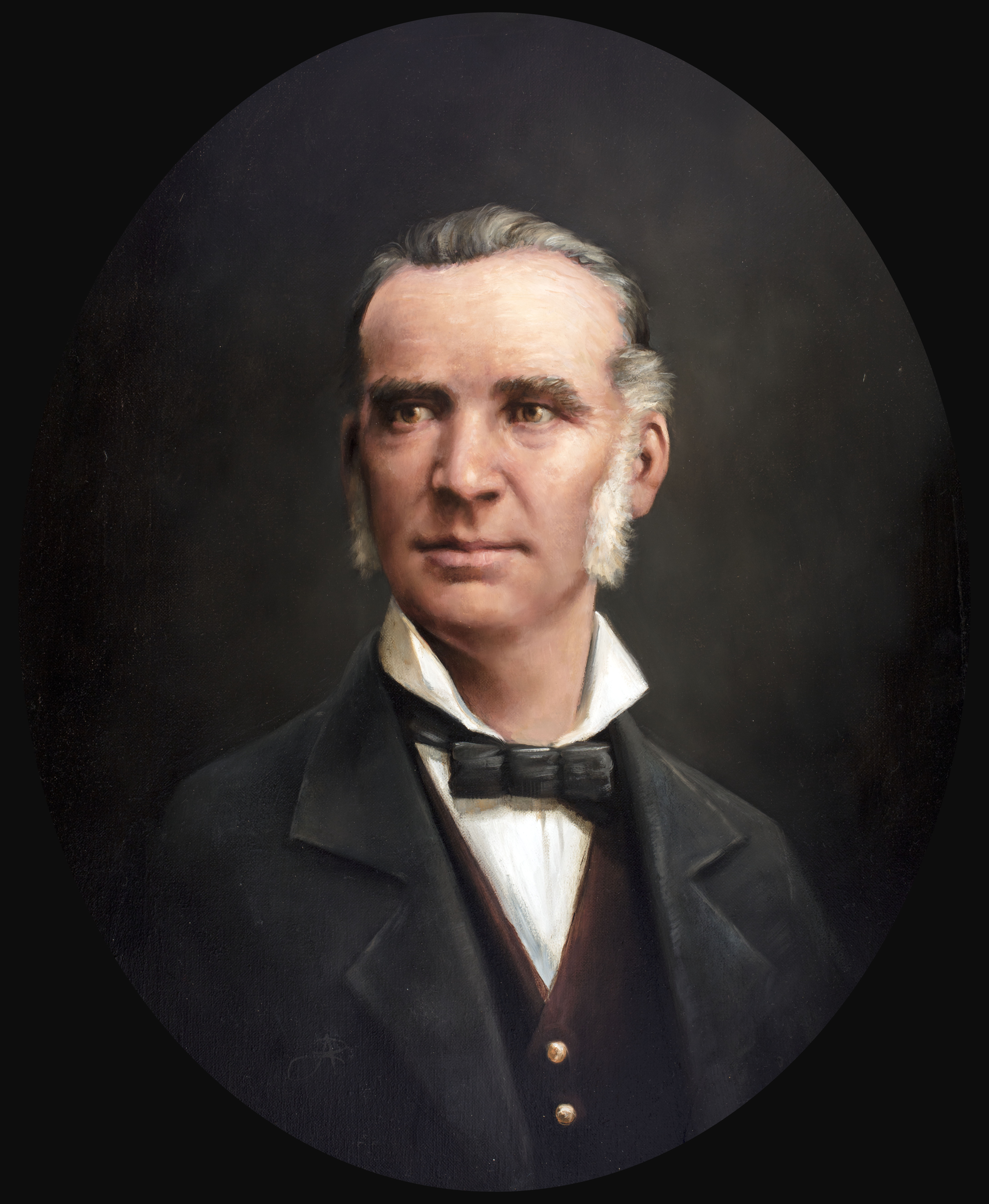 A painting of Charles Croswell the 17th Governor of the US state of Michigan from 1877 to 1881. The painting was created by Joshua Adam Risner in 2017 and now hangs in the Michigan State Capitol.